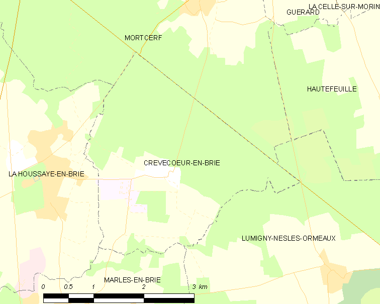 Map of French municipality Crèvecœur-en-Brie